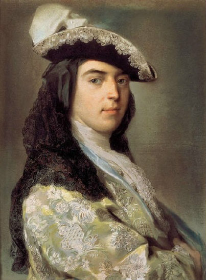 Charles Sackville, 2nd duke of Dorset by Rosalba Carriera.